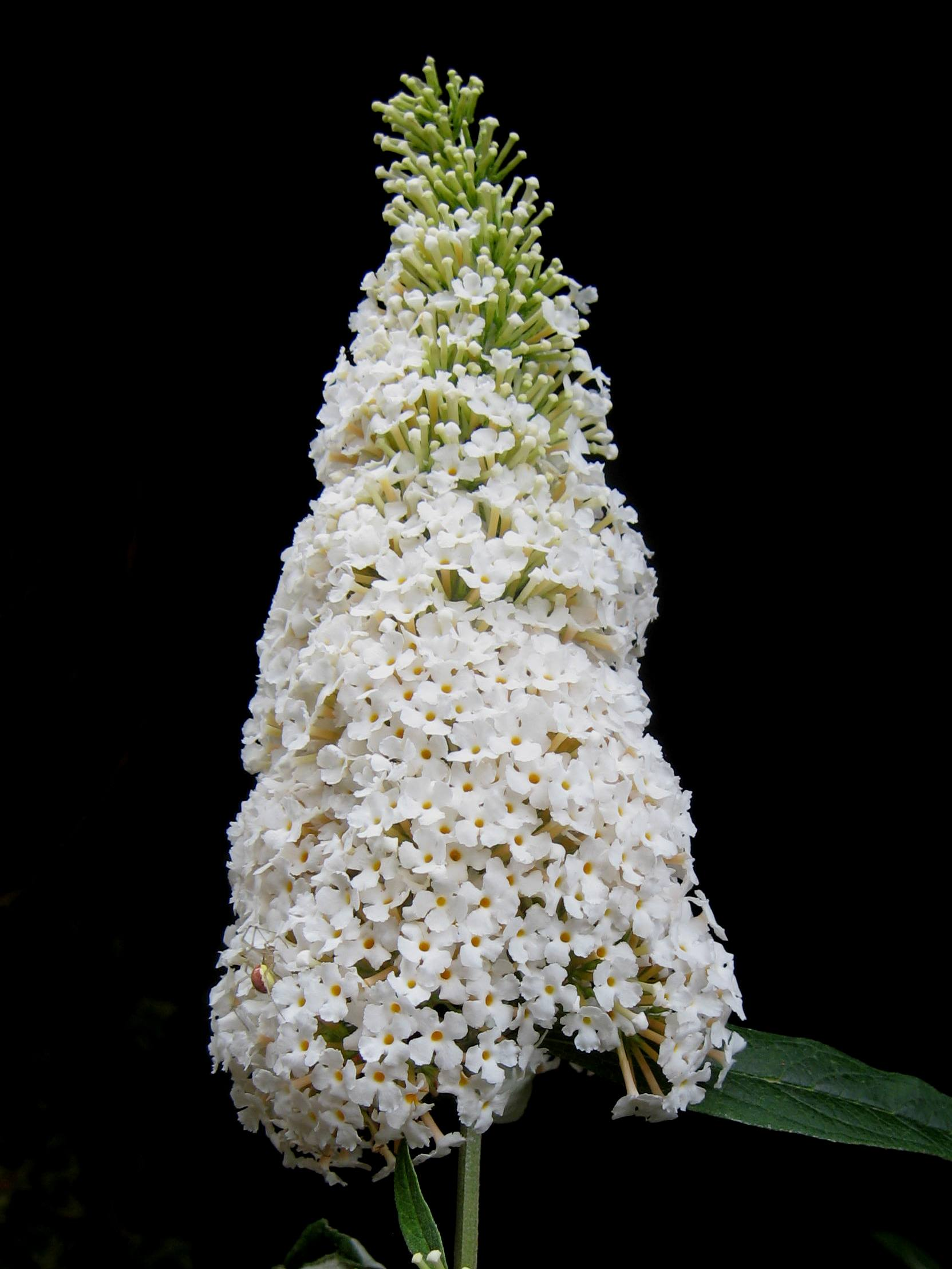 Photo of the inflorescence of Buddelja davidii cultivar 'White Profusion', taken at Portchester, UK